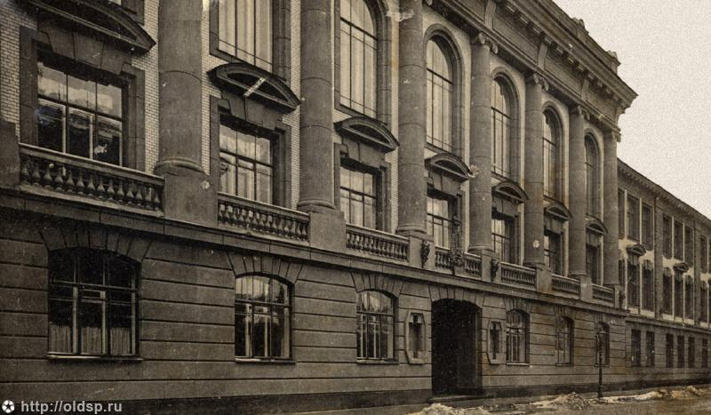 Second gymnasium in St Petersburg